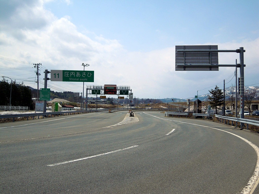 This Interchange, Shonai-asahi Interchange, is on Yamagata Expressway, in Tsuruoka City, Yamagata Prefecture, Japan.